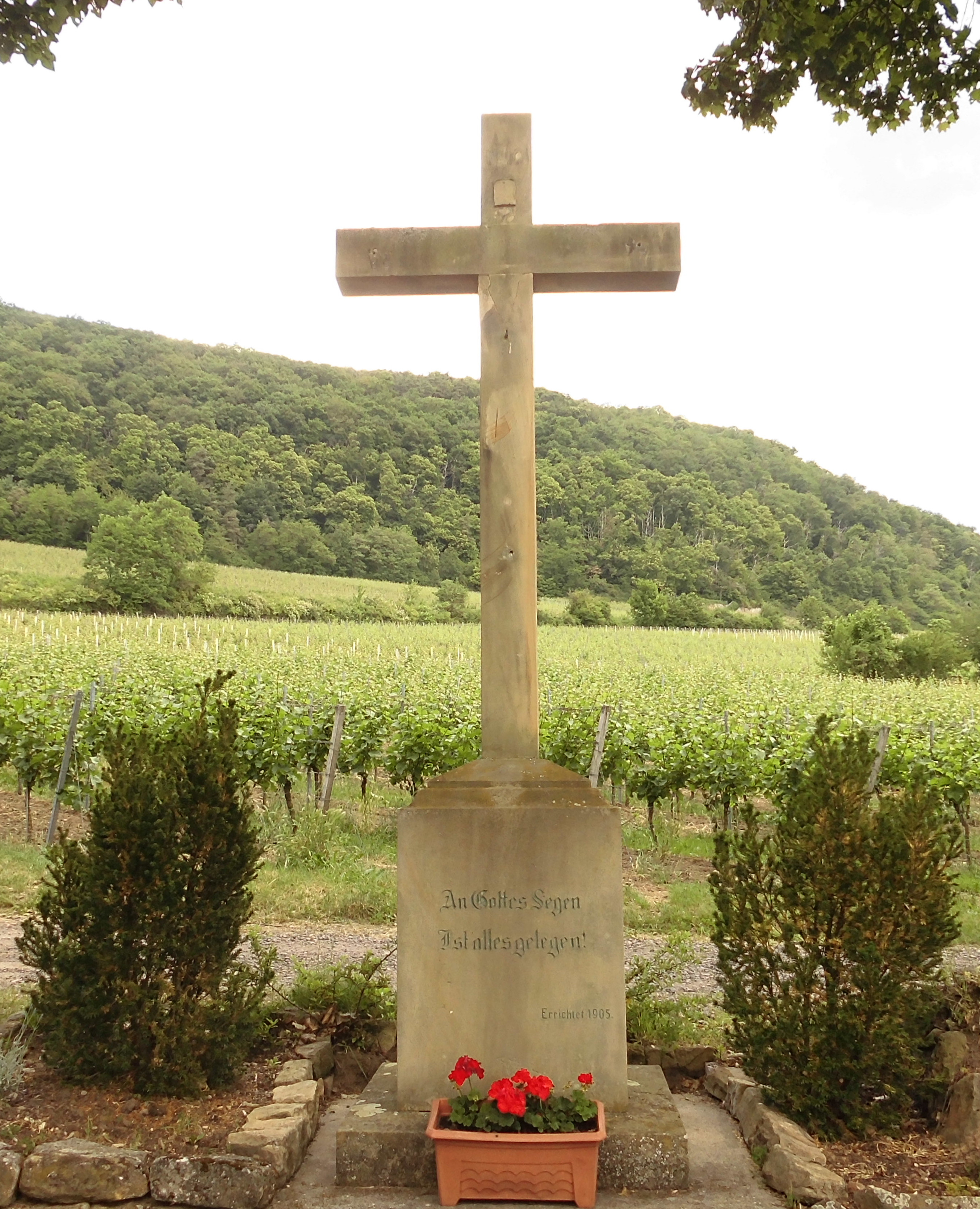 Wayside cross ‘In der Mühle’, about 500 meters southwest of Deidesheim